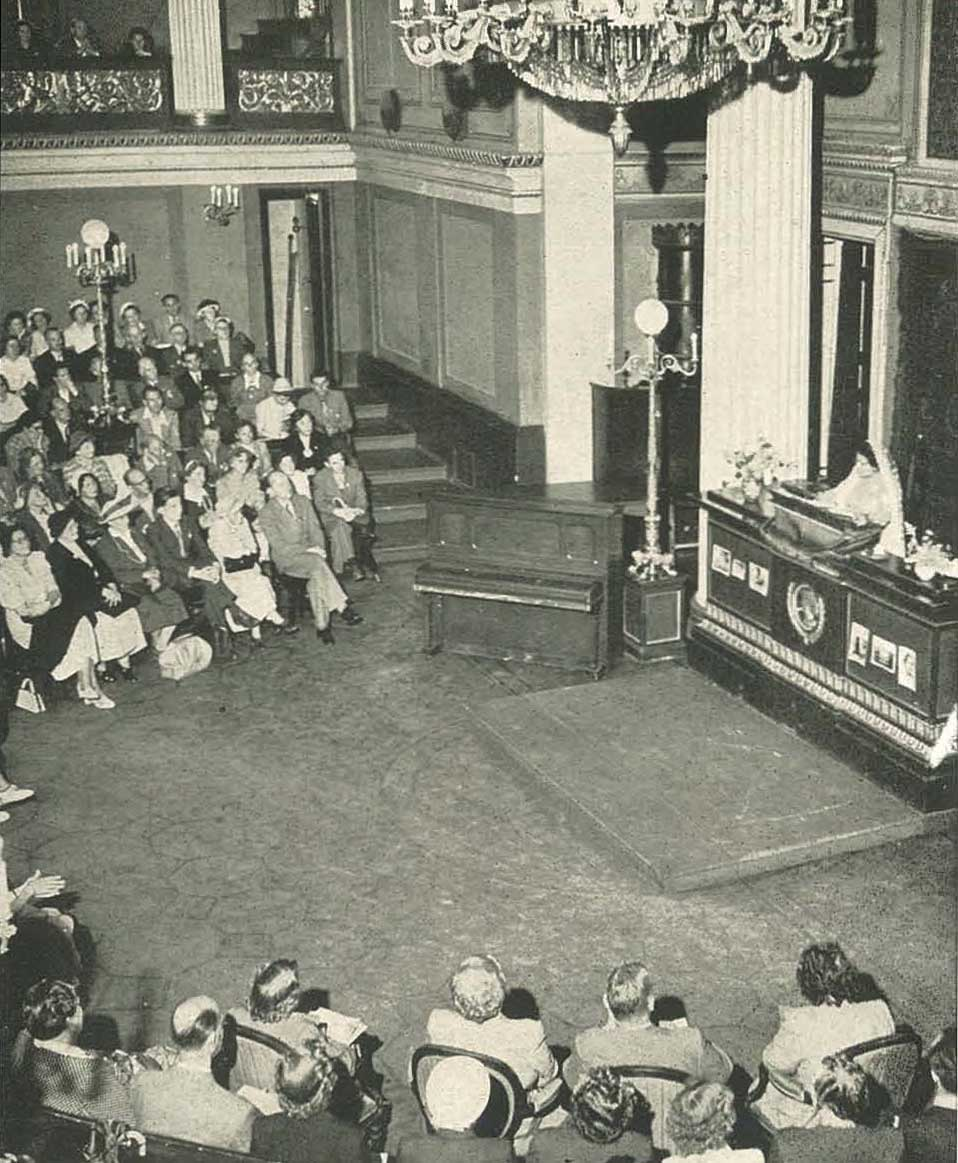 Indonesian delegate at Esperanto Conference, Oslo